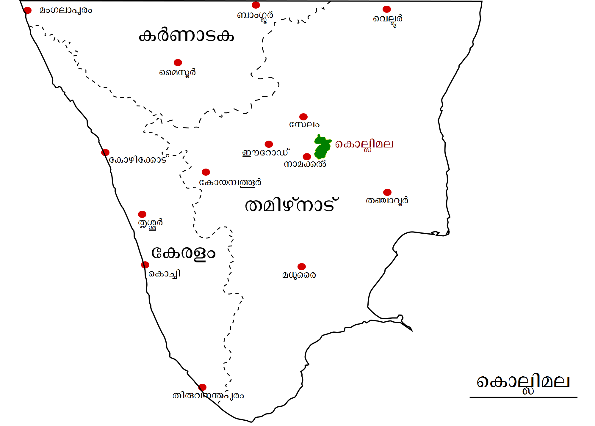 Map showing location of Kolli Hills